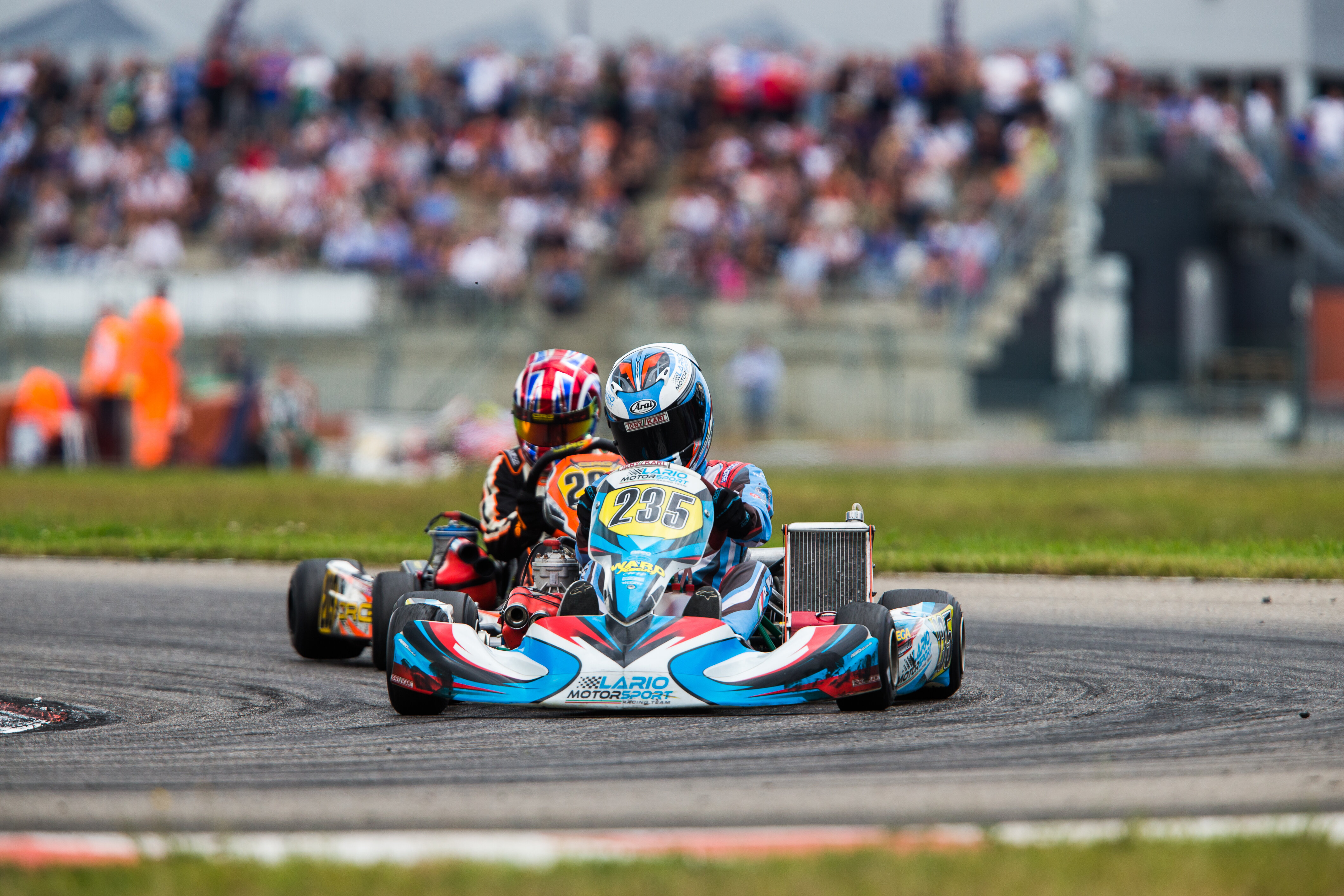 Alessandro Giardelli Karting European Championship 2016 Belgium